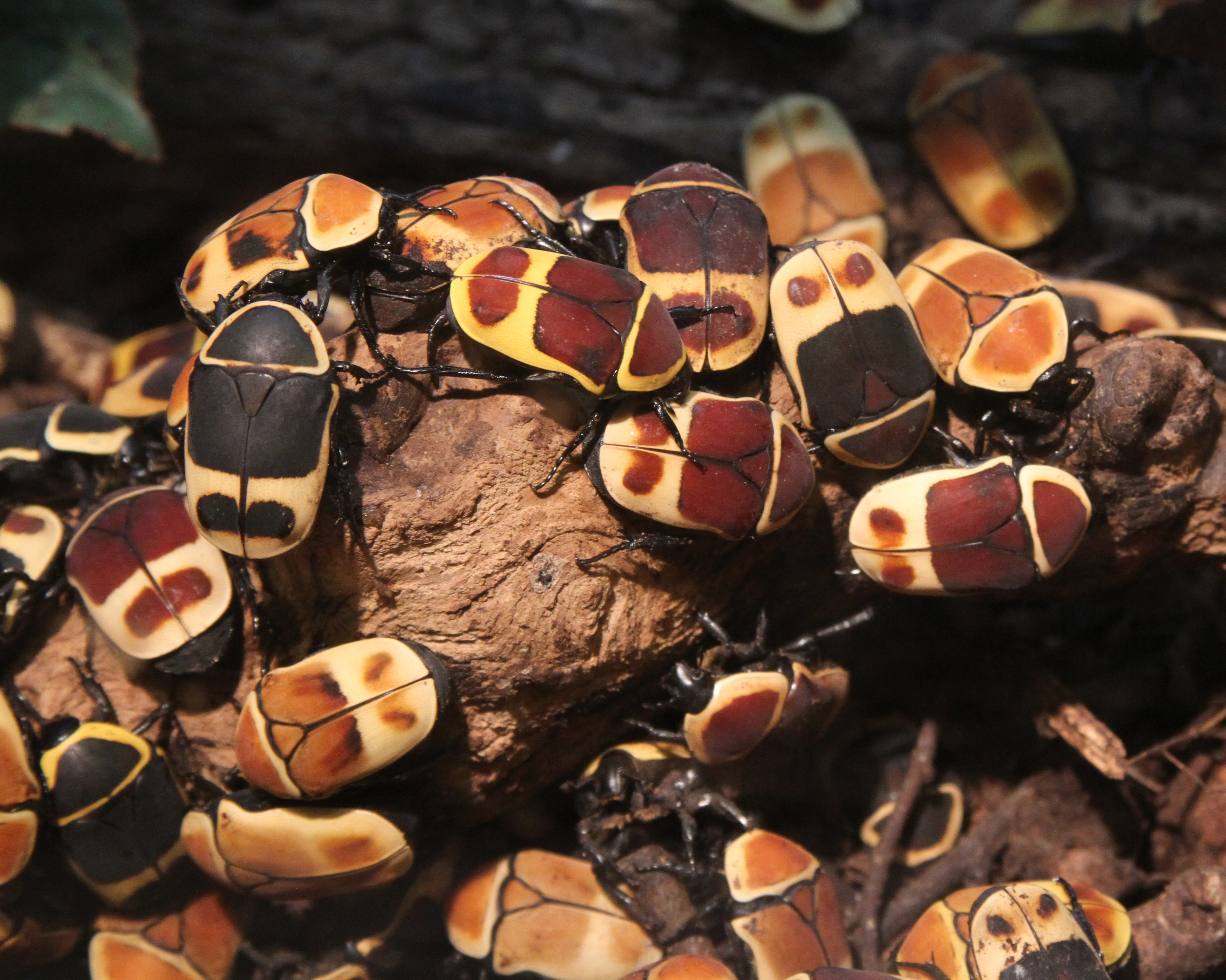 Pachnoda marginata perigrina at the Cincinnati Zoo. Photo by Greg Hume